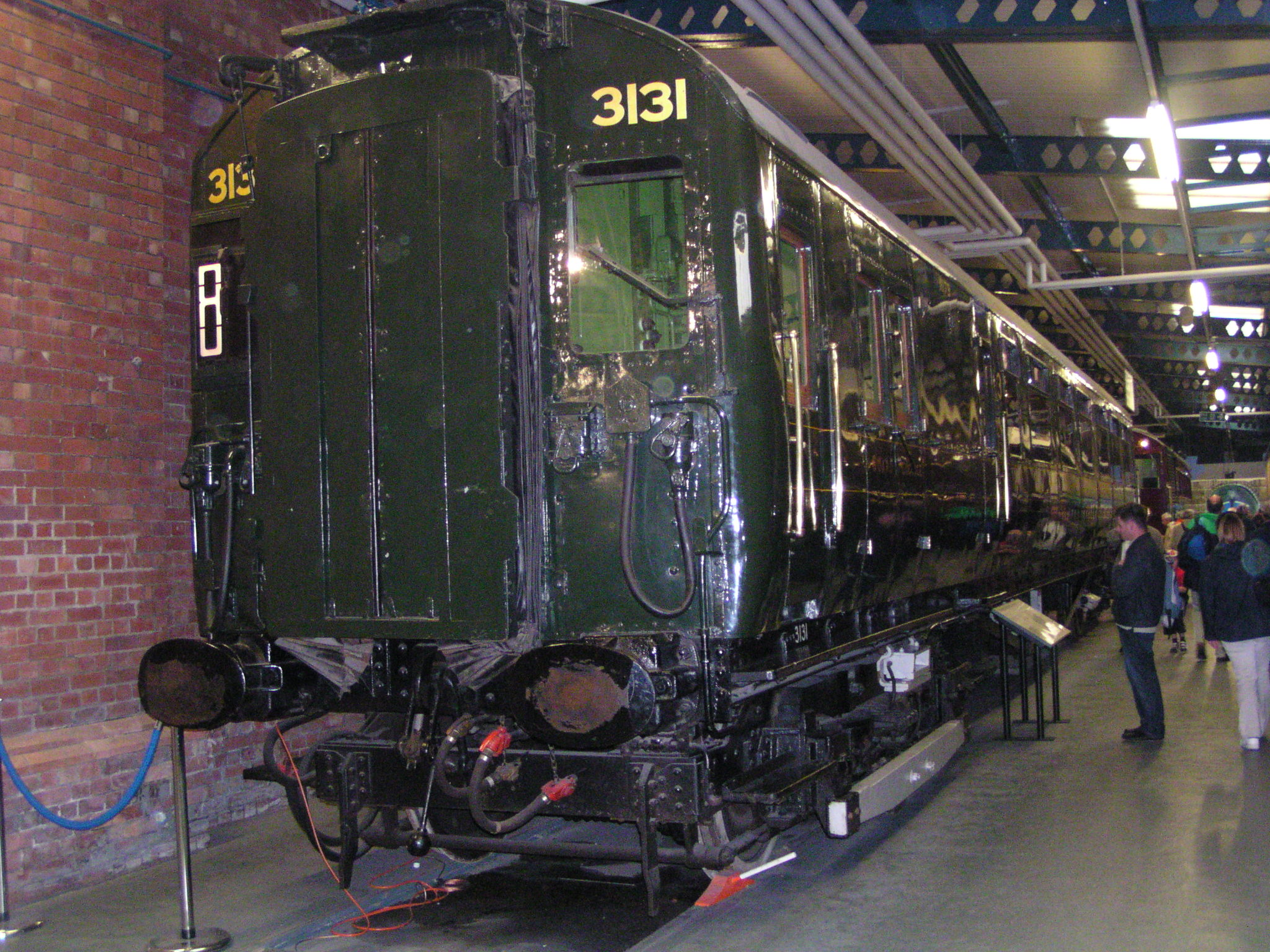 BR Class 404 4Cor, no. 3131, at the National Railway Museum, York, on 3rd June 2004 Image by Phil Scott (Our Phellap)